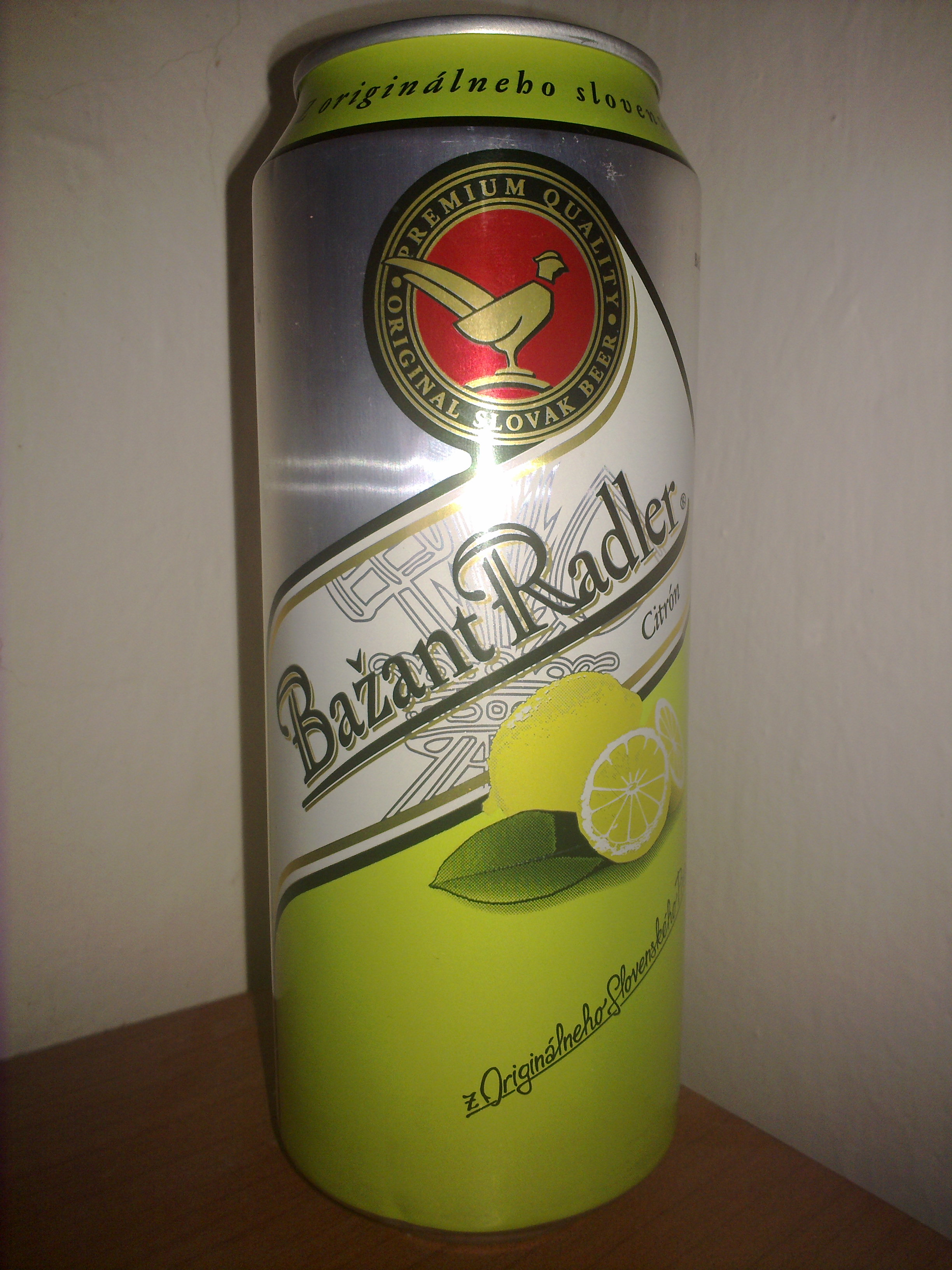 Lemon beer BažantRadler